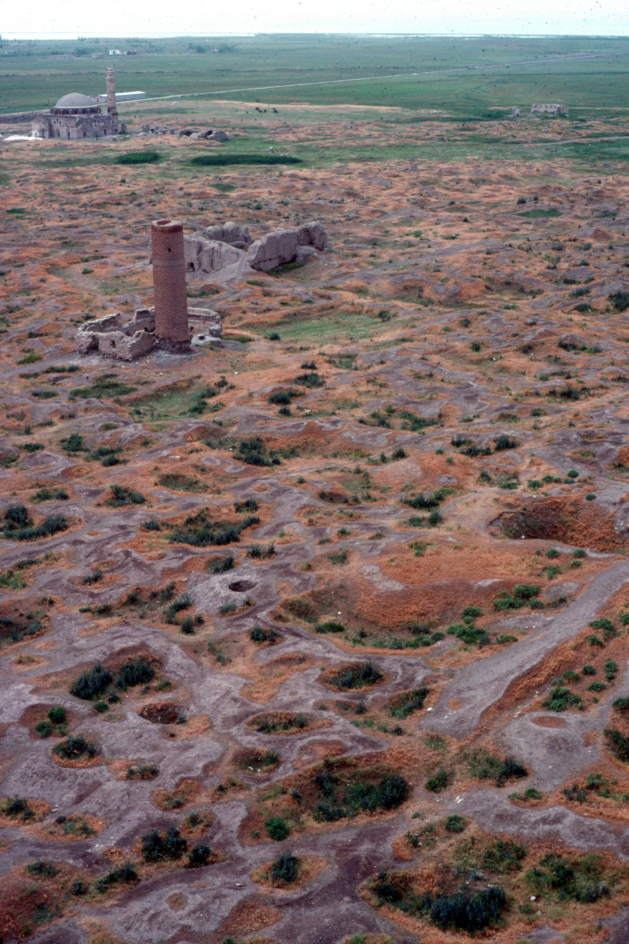 Ruins of the old city of Van, photographed from Van Fortress, Turkey.